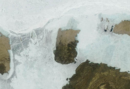 Terra MODIS satellite image of Brock Island, Canada.